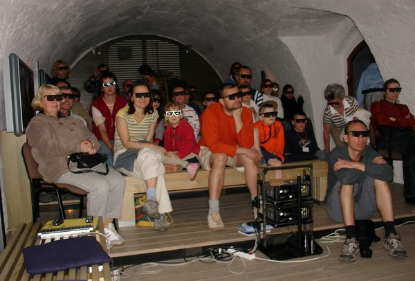 people watching 3D movie at AniFest 2007